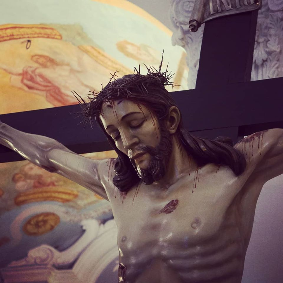 Sacra Effigie del SS Crocifisso